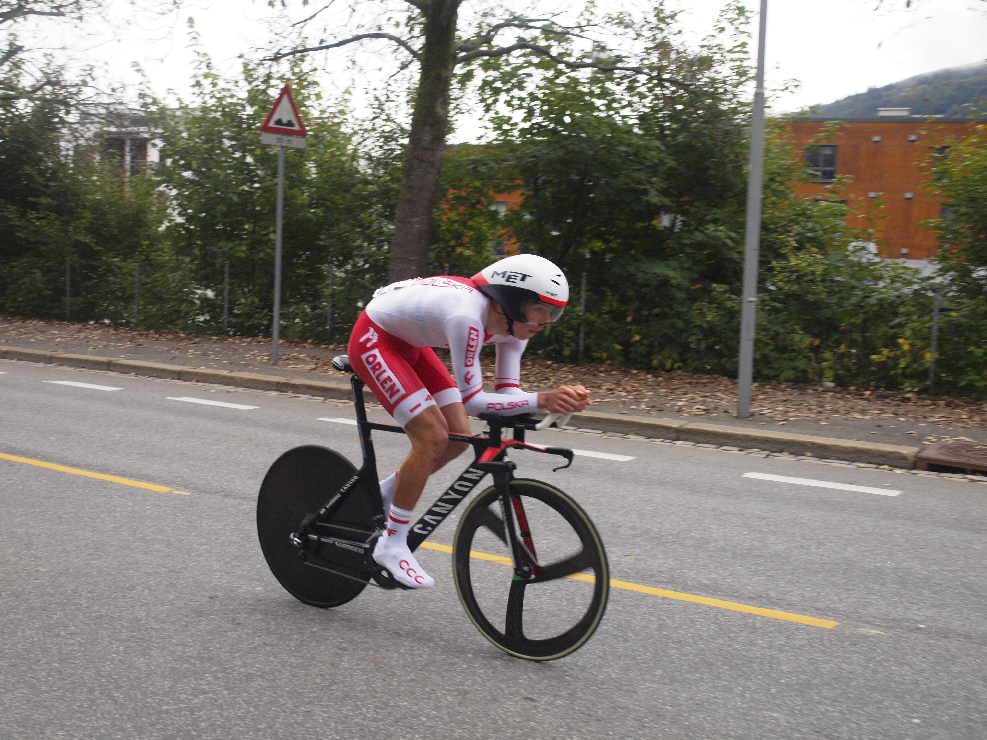 Filip Maciejuk at the 2017 UCI World Championships